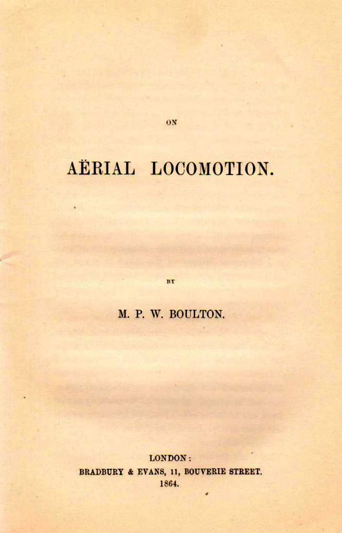 Coverpage of "On Aerial Locomotion", by Matthew Piers Watt Boulton, published in 1864. This paper described methods of aircraft propulsion, among several other items and designs. Boulton then patented ailerons in 1868.